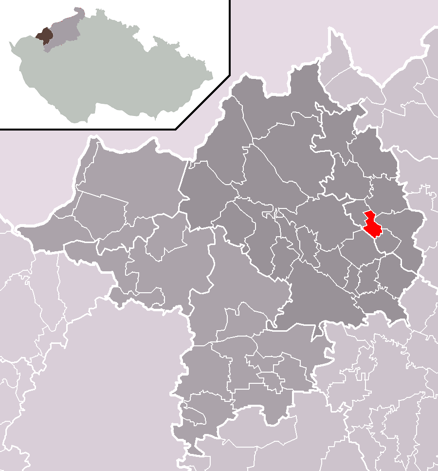 Location of Pesvice municipality within Chomutov District and administrative area of Chomutov as a Municipality with Extended Competence.